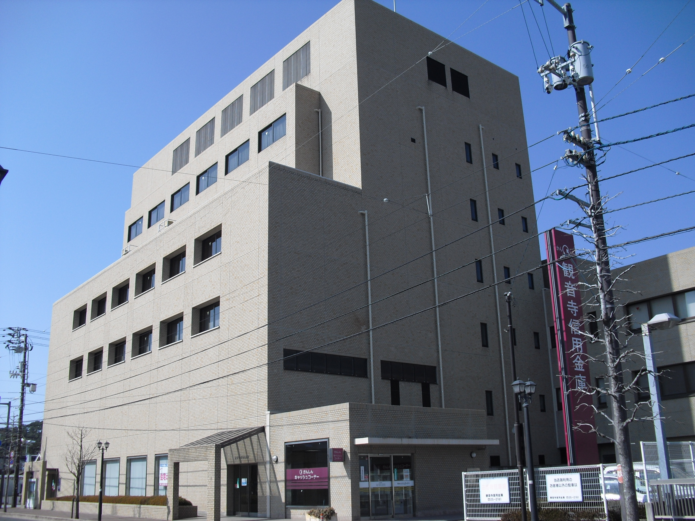 Kanonji shinkin bank.